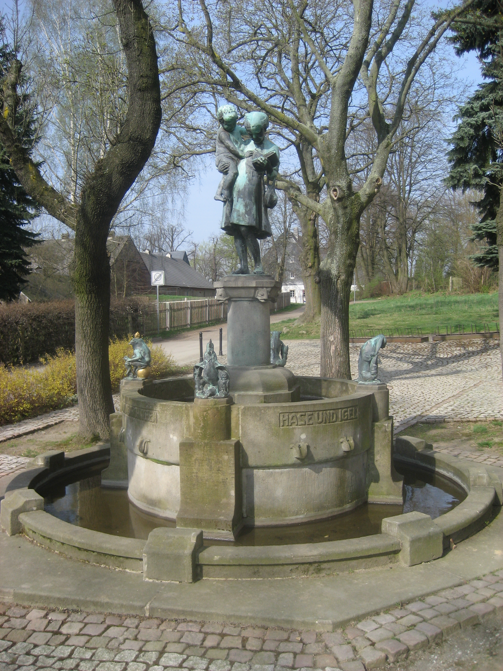 Märchenbrunnen Chemnitz-Röhrsdorf